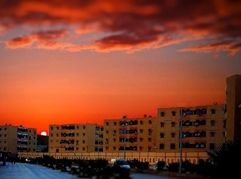 Biskra